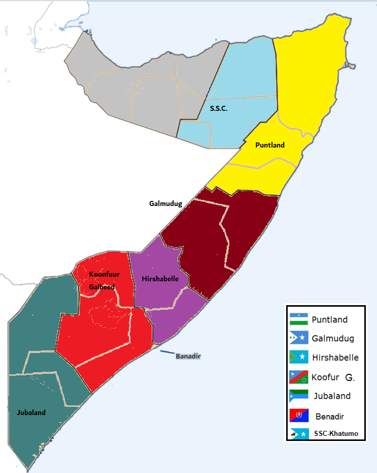 Pembe la fedheha